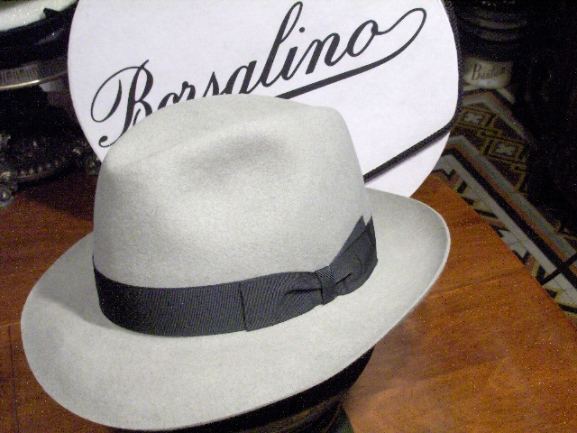 a fedora hat